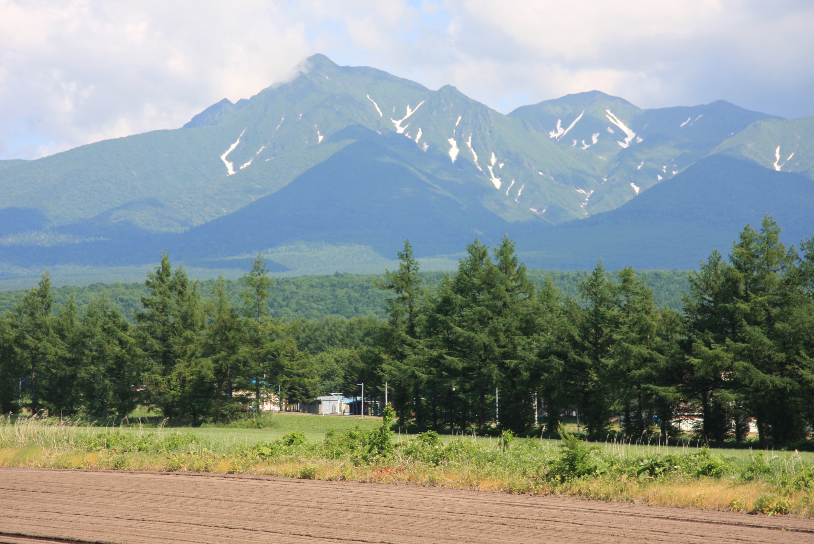 The Northwest side of Mount Shari.